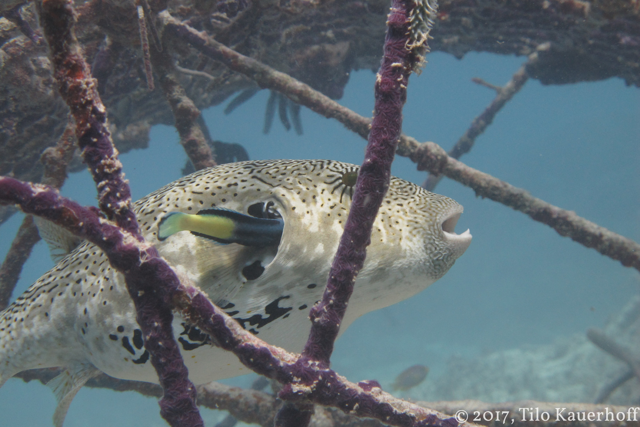 500px provided description: A pufferfish opening his gills to get a very thorough cleaning, all the while enjoying the protection of a Biorock? artificial coral reef structure. [#sea ,#color ,#water ,#nature ,#ocean ,#animal ,#indonesia ,#clean ,#fish ,#wildlife ,#underwater ,#diving ,#wild ,#swimming ,#coral ,#environment ,#aquatic ,#tropical ,#exotic ,#scuba ,#conservation ,#reef ,#snorkeling ,#ecosystem ,#pufferfish ,#canon g12 ,#gili trawangan ,#ikelite ,#no person ,#biorock]